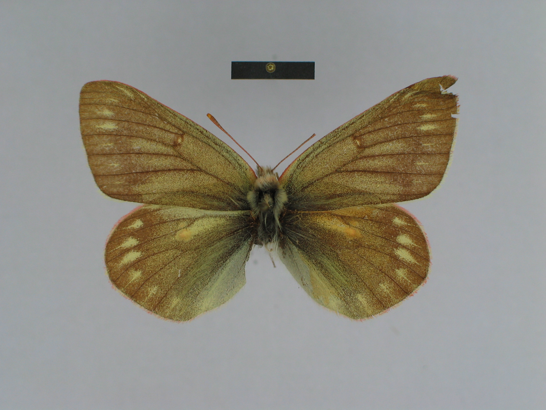 Specimen of the species Colias tamerlana tamerlana from the collection of the Zoological Museum of the Zoological Institute of the Russian Academy of Sciences; ♂ dorsal side; scalebar=1 cm